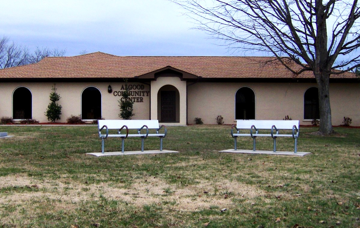 The Algood Community Center in Algood, Tennessee, located in the Southeastern United States.